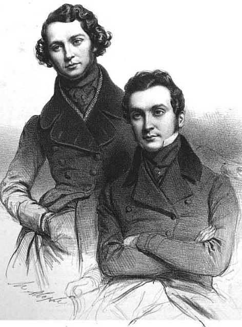 Portrait of the Cogniard brothers (Théodore Cogniard (30 April 1806, Paris - 13 May 1872, Paris) and Jean-Hippolyte or Hippolyte Cogniard (28 November 1807, Paris - 6 February 1882, Paris) Publication/Source: Plate 9 "Les Frères Cogniard" in Louis Huart and Charles Philipon (eds), Galerie de la presse, de la littérature et des beaux-arts, Volume 1, Bureau de la Publication, et Chez Aubert, 1839